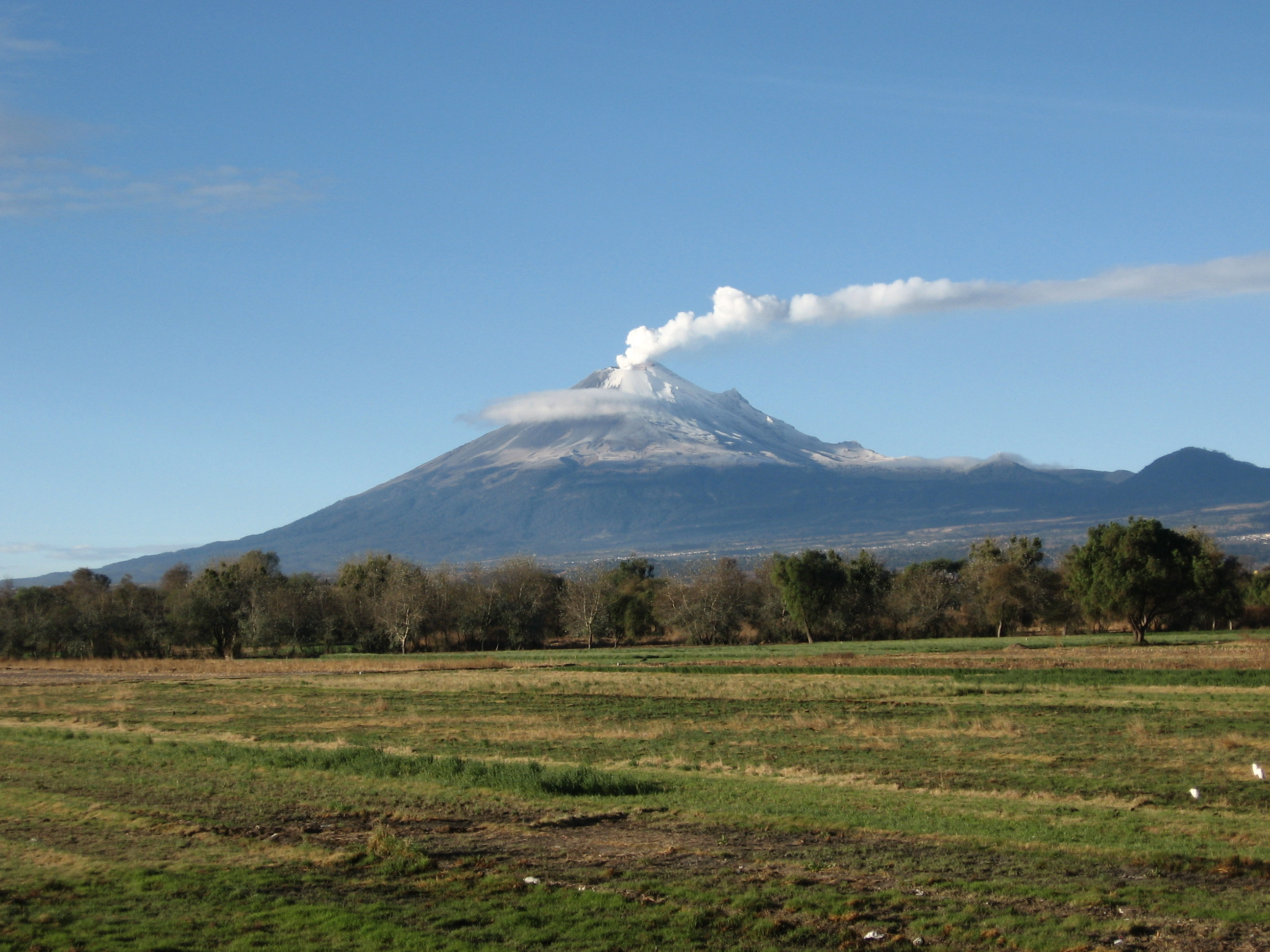 Popocatepetl volcano, view from freway perote-veracruz